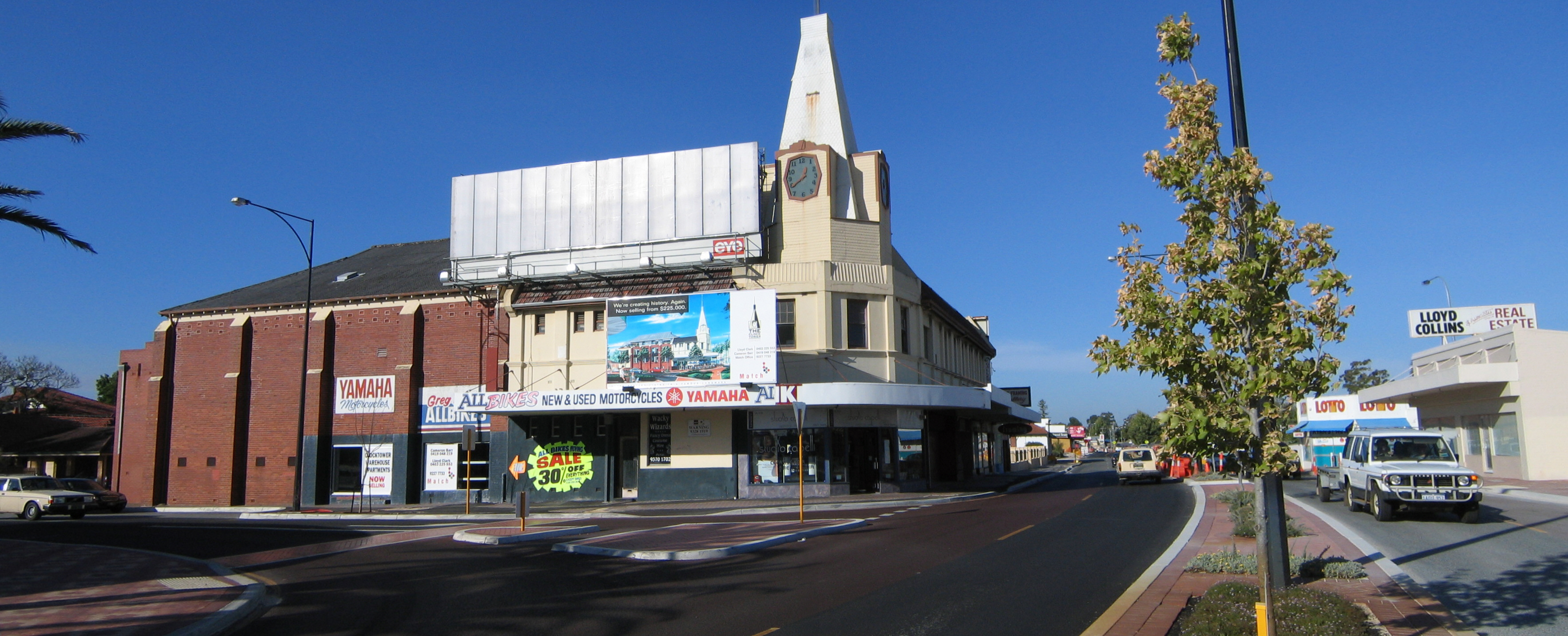 Clock tower, Beaufort St, Inglewood, Western Australia.